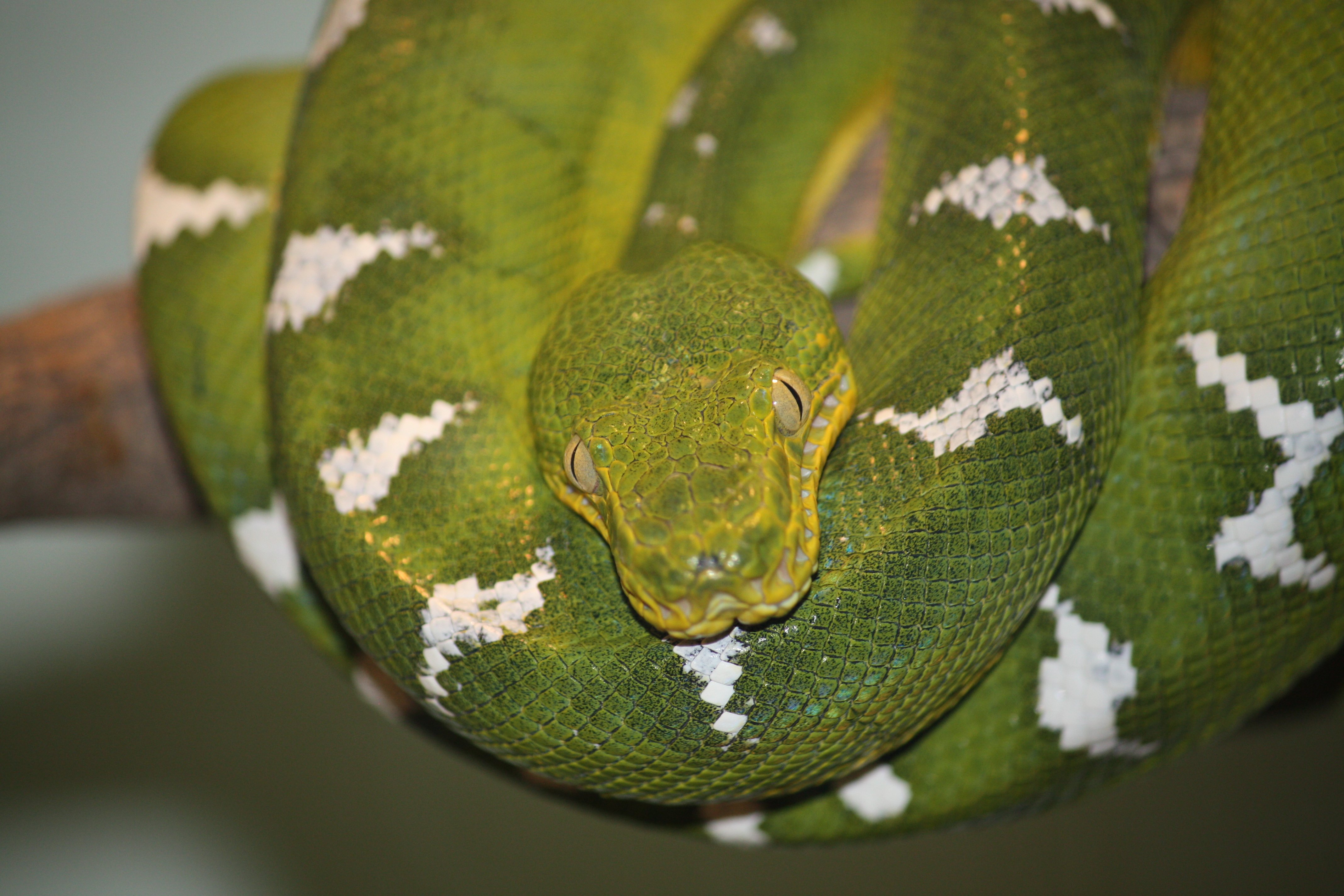 Emerald Tree Boa Corallus caninus at Louisville Zoo